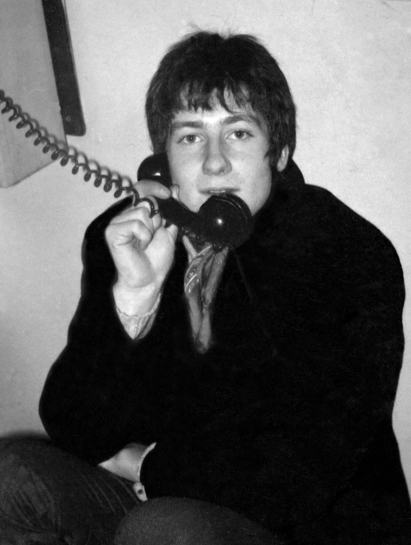 George Fenton taken backstage of the apollo theatre London